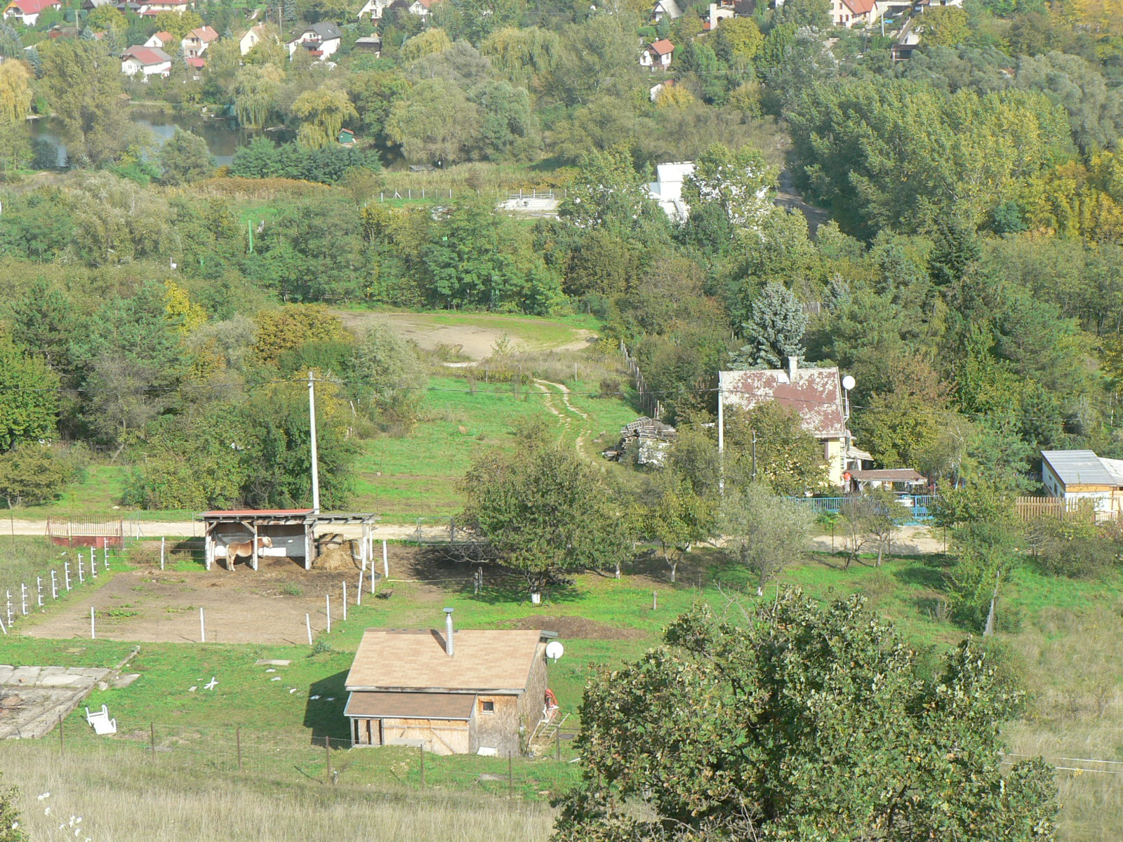 Solymár I. táró körülbelüli helye, ma lovarda (2015)